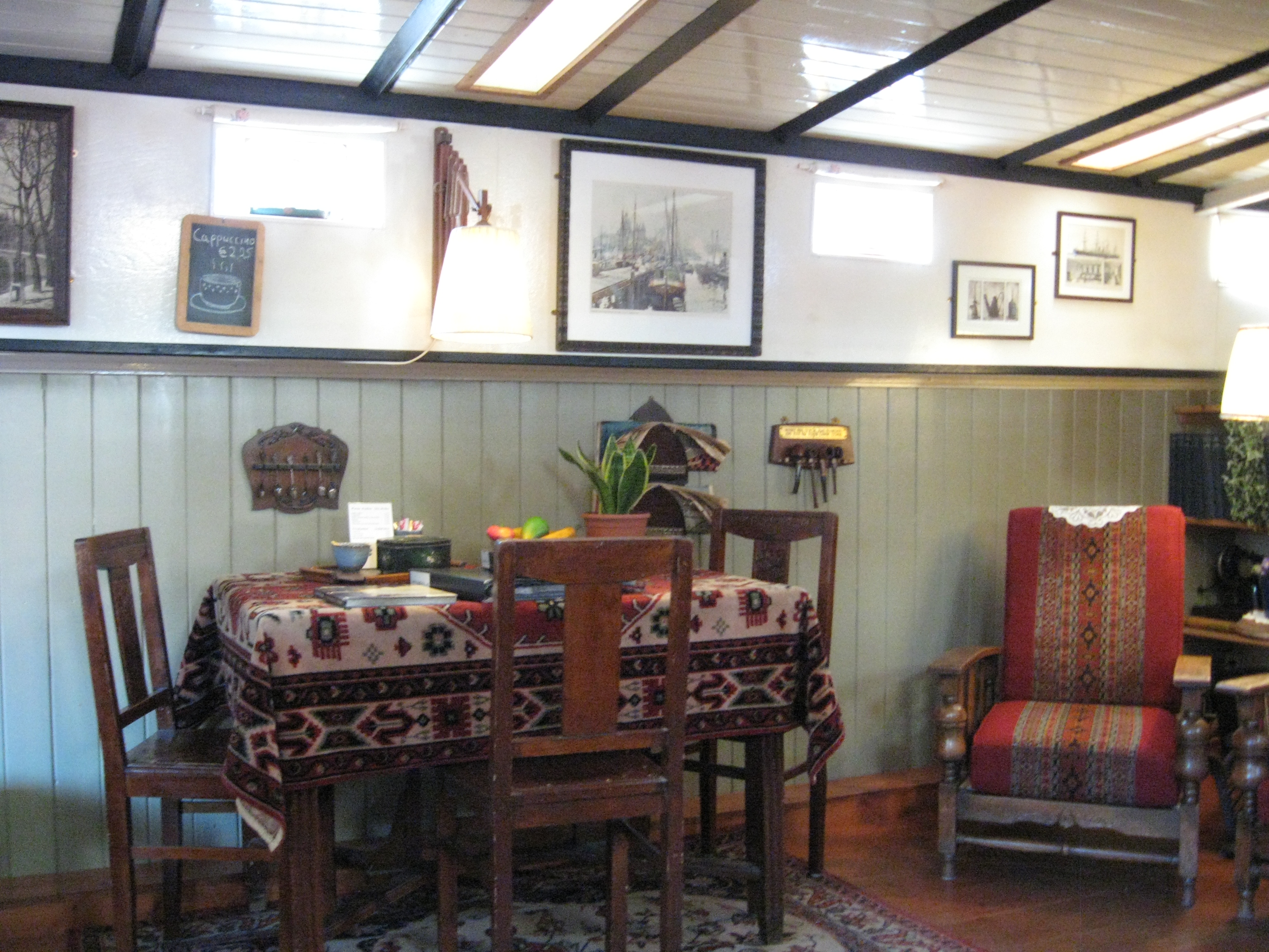 Houseboat museum, Amsterdam, Netherlands check usage